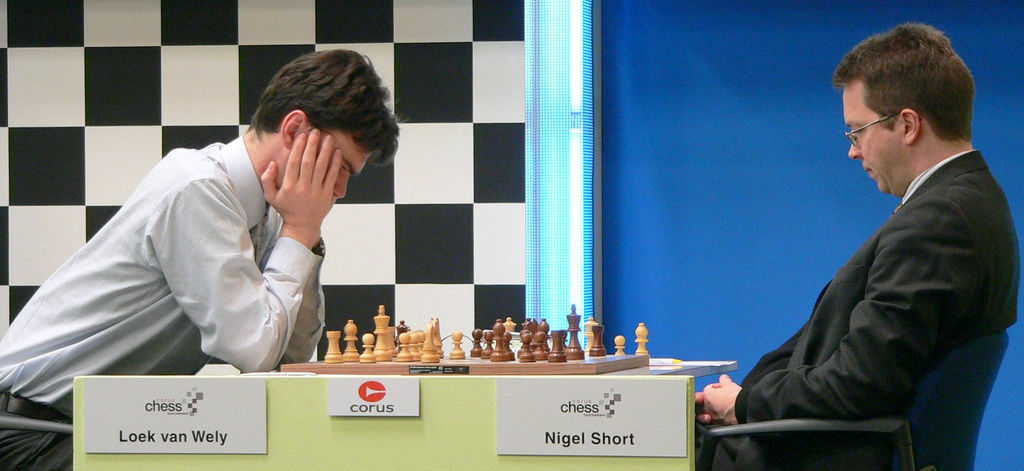 Corus 2005: Loek van Wely scored his only win against Nigel Short.